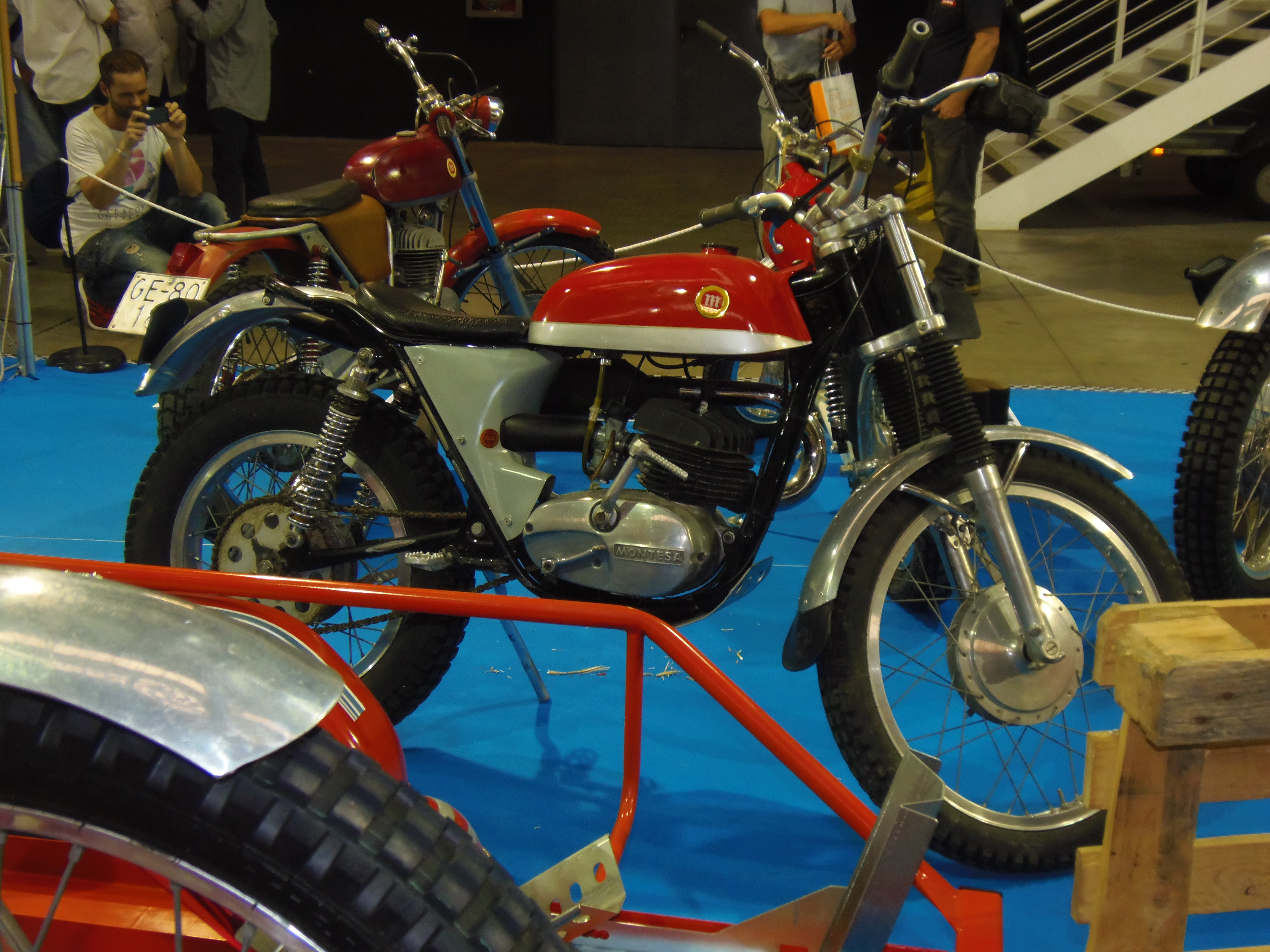 Montesa Impala 250 Trial, a prototype built and ridden by Pere Pi in 1966